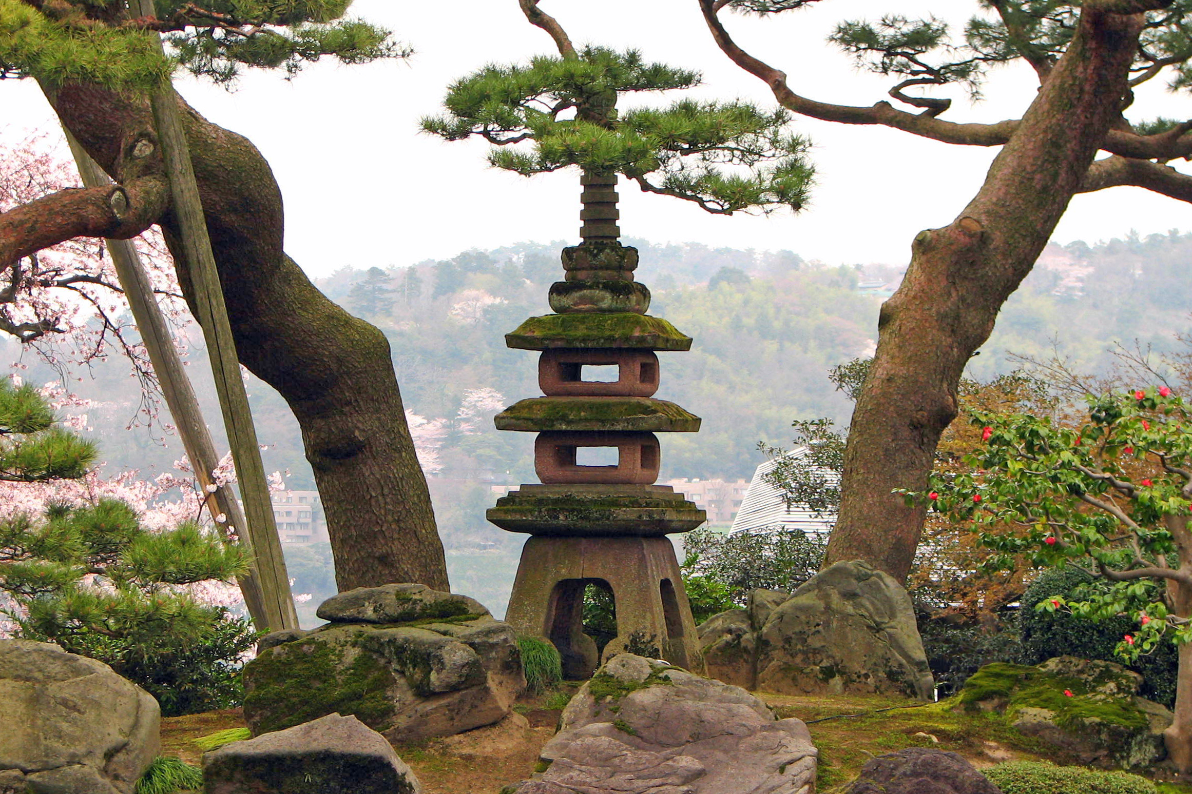 Lantern in the Kenroku-en garden, Kanazawa, Ishikawa Prefecture, Japan